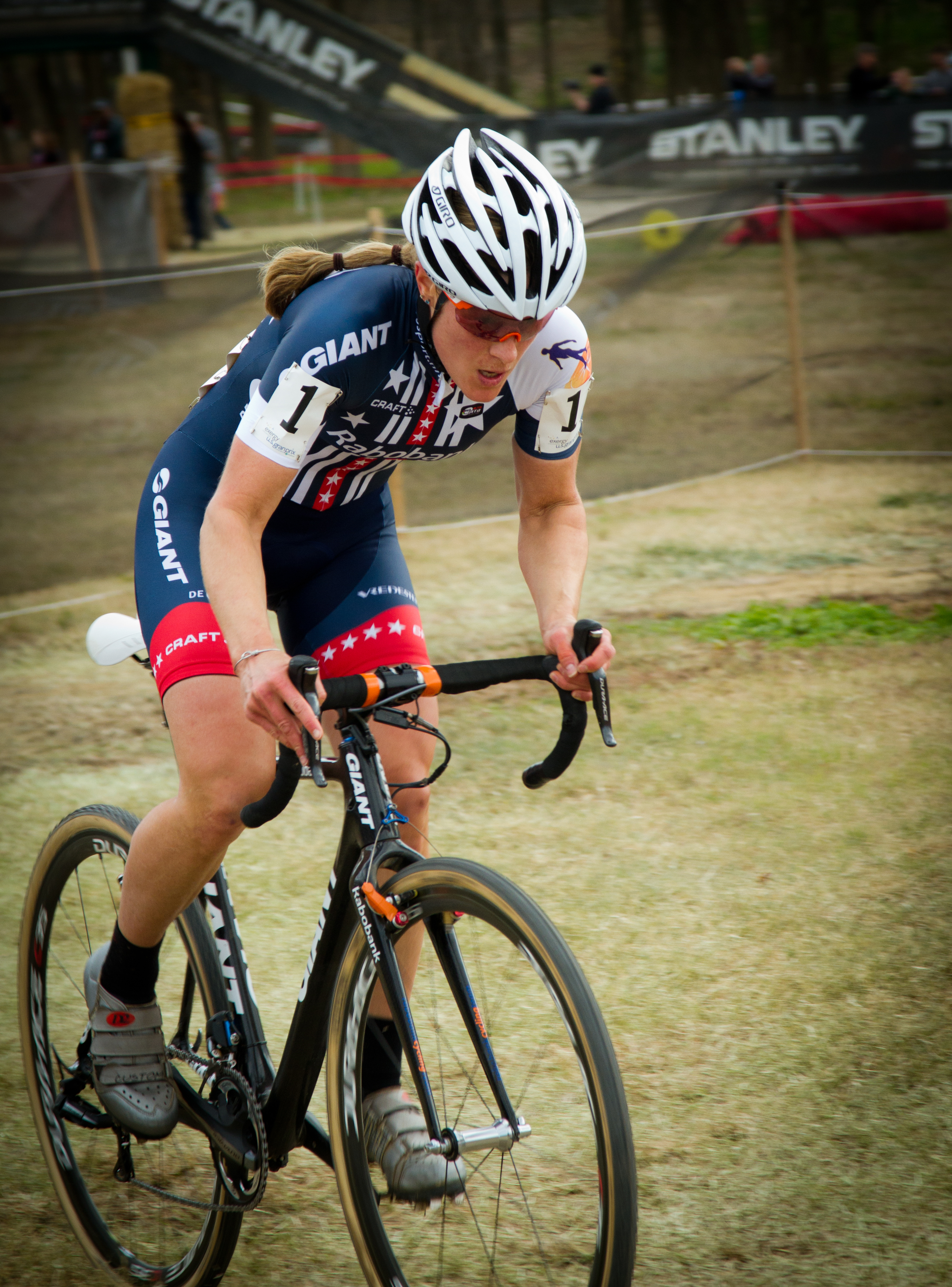 Katie Compton at the 2011 Louisville USGP, where she took first place in both races.